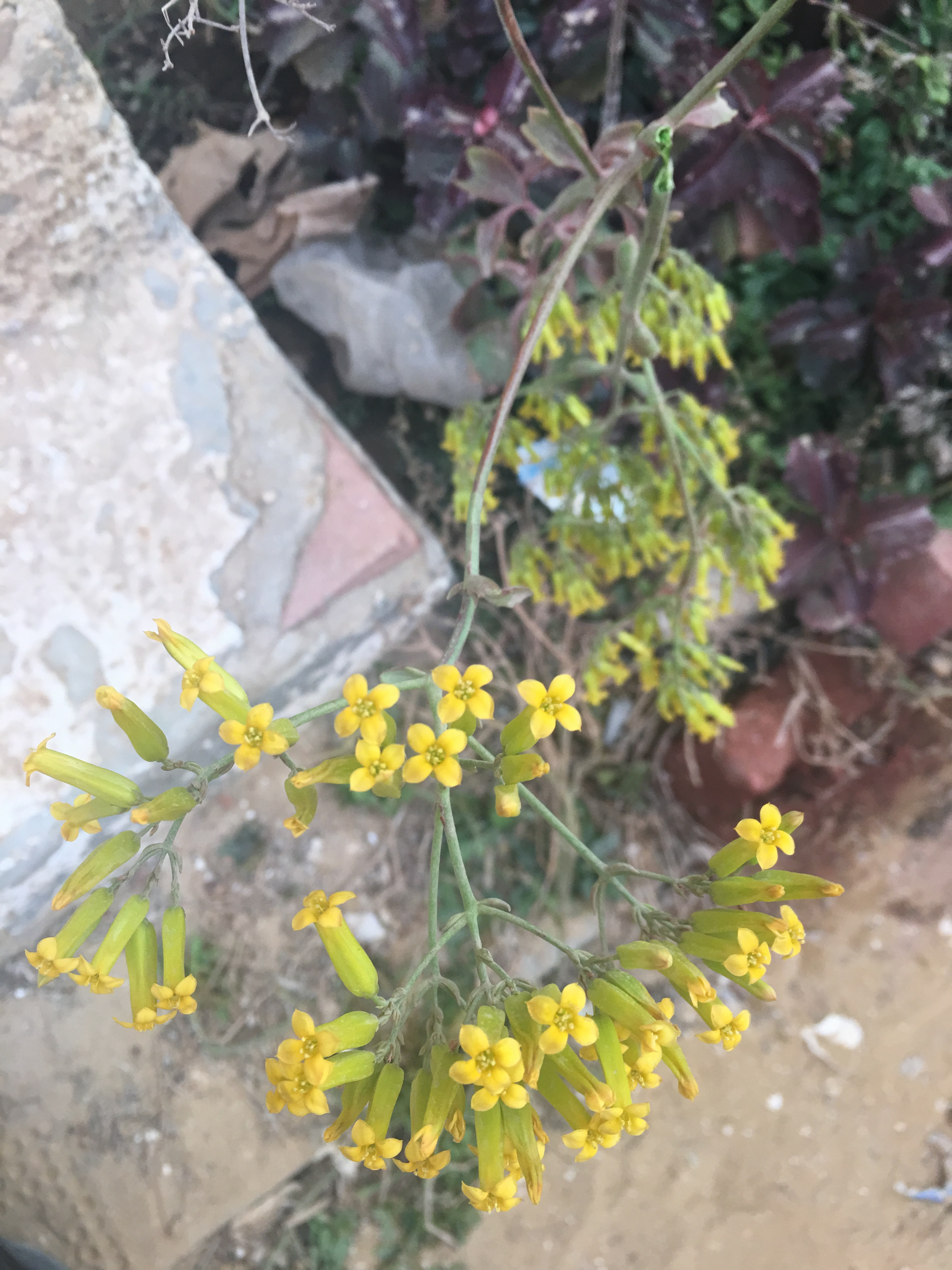 Bryophyllum Flower by Hatem Moushir